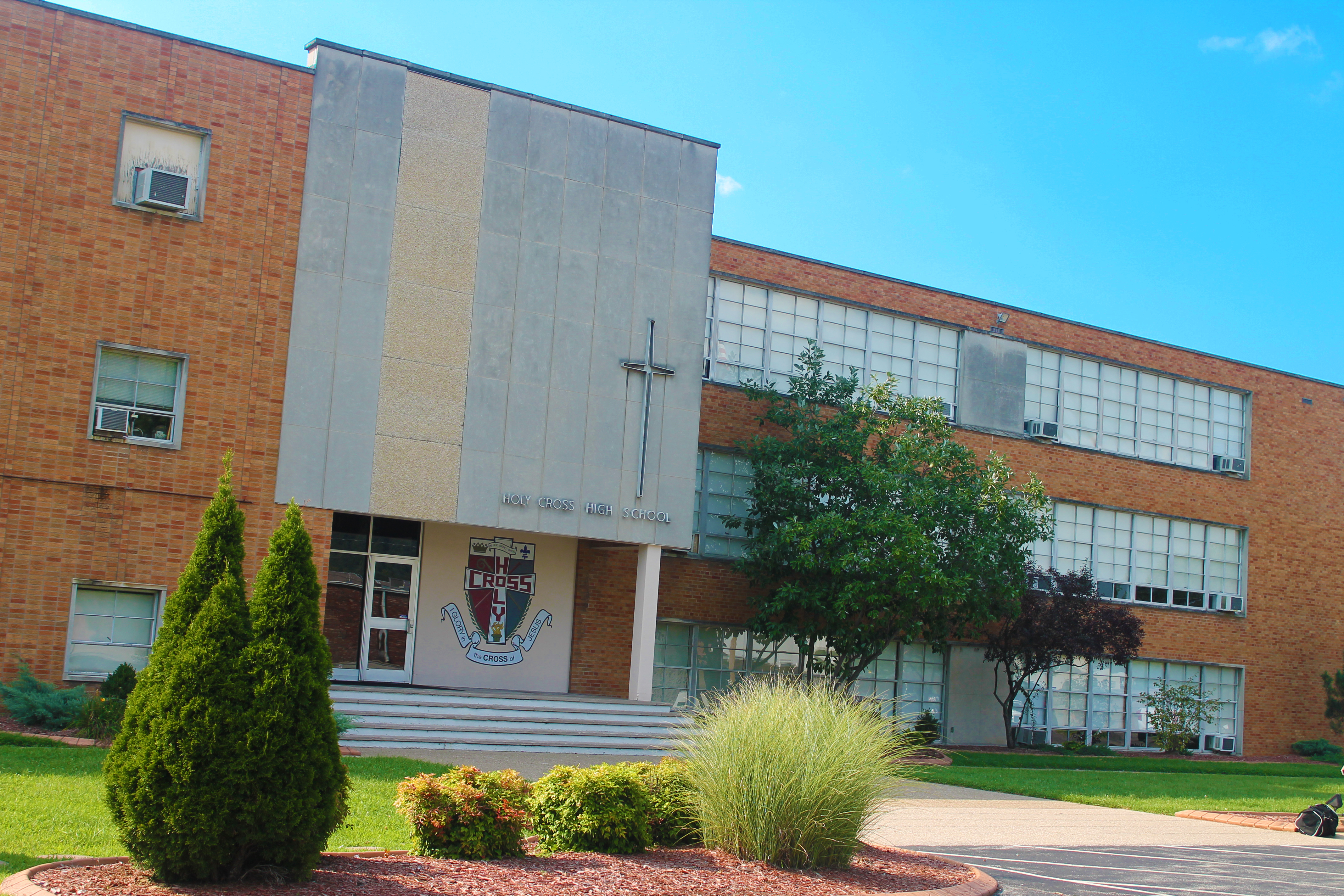 Picture taken of the front side of Holy Cross High School.